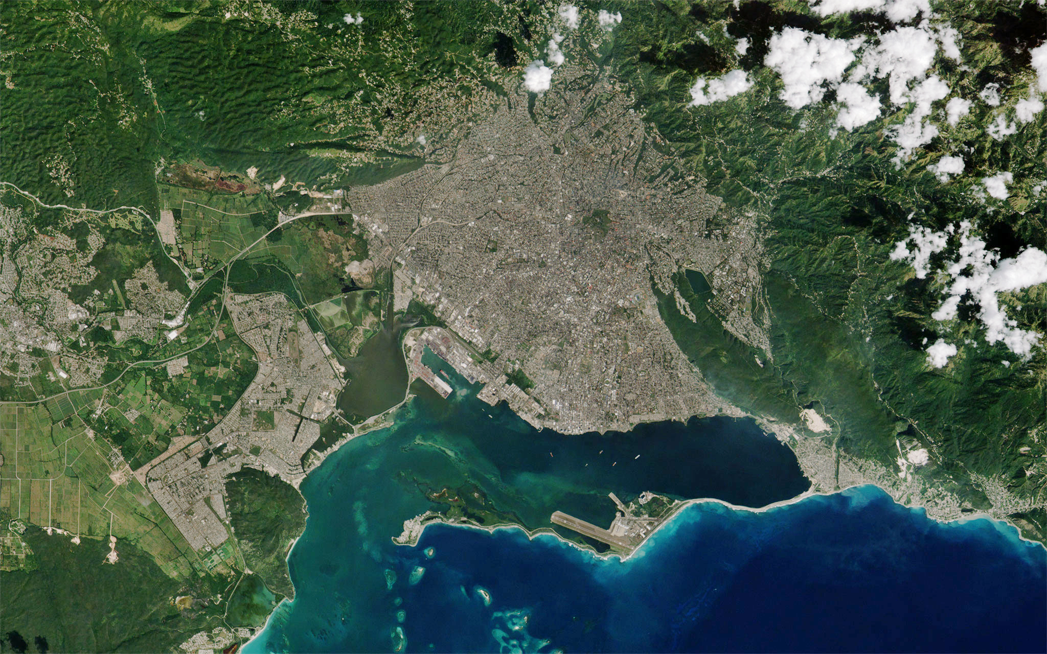 Kingston, Jamaica, as viewed by Hodoyoshi-1 satellite.